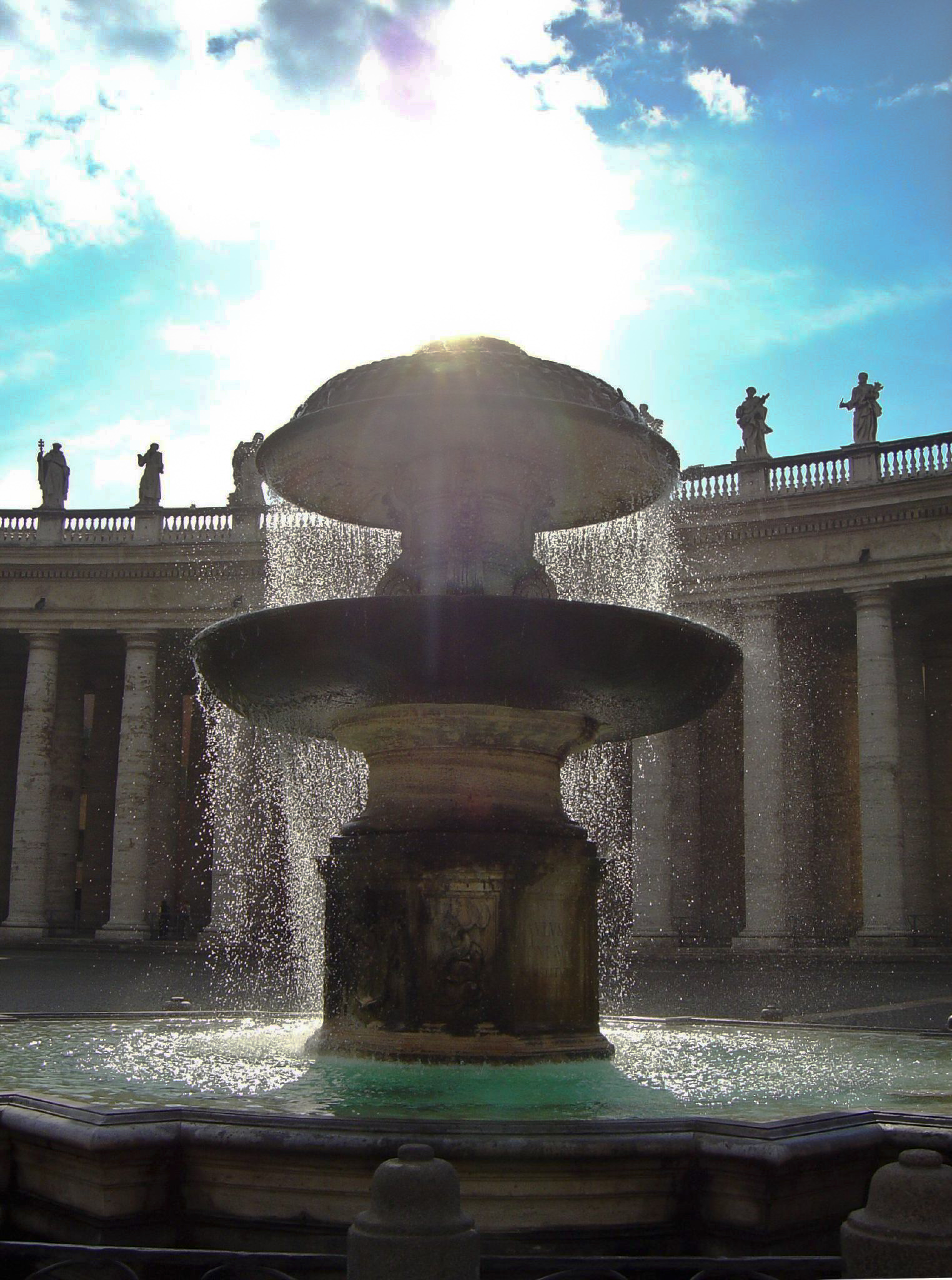 Fountain in St. Peter's Square, Vatican City, Italy.